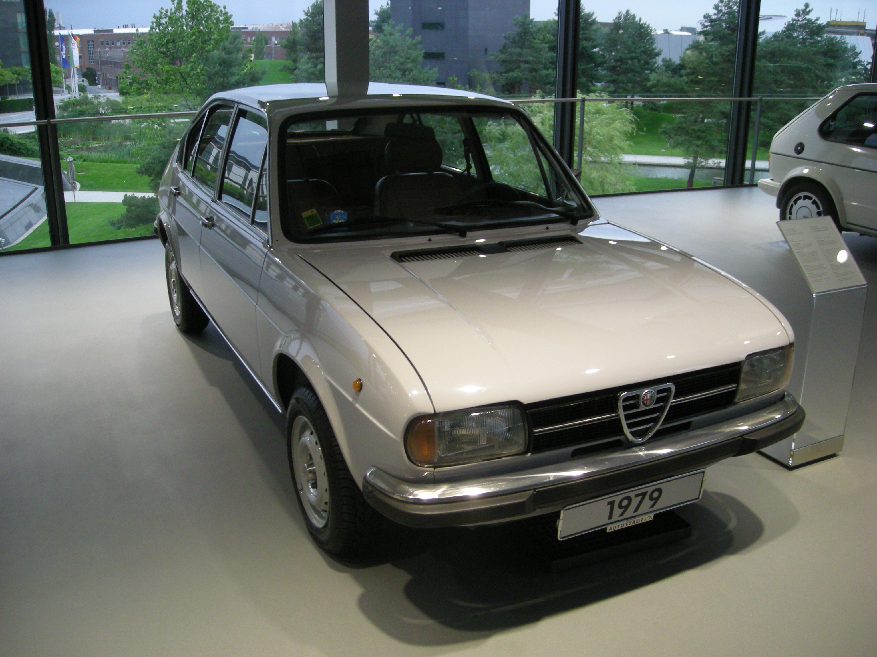 A 1979 Alfasud inside the ZeitHaus at Autostadt in Wolfsburg, Niedersachsen (Germany).